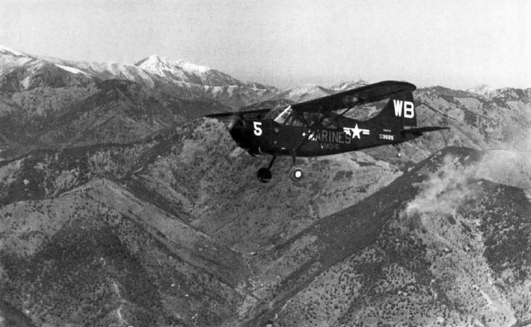 A U.S. Marine Corps Stinson OY-1 Sentinel of Marine Observation Squadron VMO-6 piloted by Maj. Vincent J. Gottschalk in flight over the rugged Korean terrain, 1950-51.